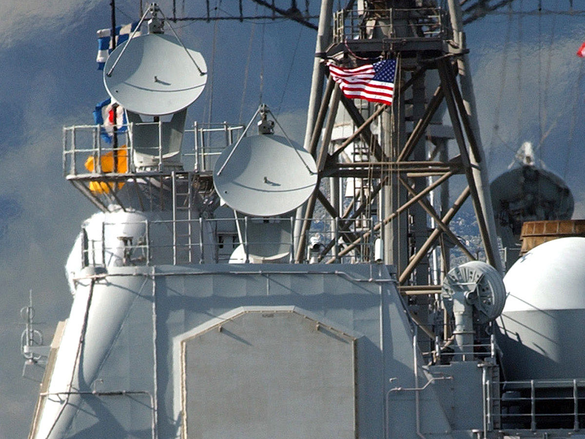 061110-N-0780F-003 Chania, Crete, Greece (Nov. 10, 2006) - Sailors prepare to conduct mooring operations as the guided-missile cruiser USS Philippine Sea (CG-58) arrives in Souda Harbor for a routine port visit. The Ticonderoga-class cruiser, with her crew of nearly 400 personnel, is on her homeward bound transit of the Mediterranean nearing the end of a regular six-month deployment to the Persian Gulf in support of the Global War on Terror. U.S. Navy photo by Mr. Paul Farley (RELEASED)